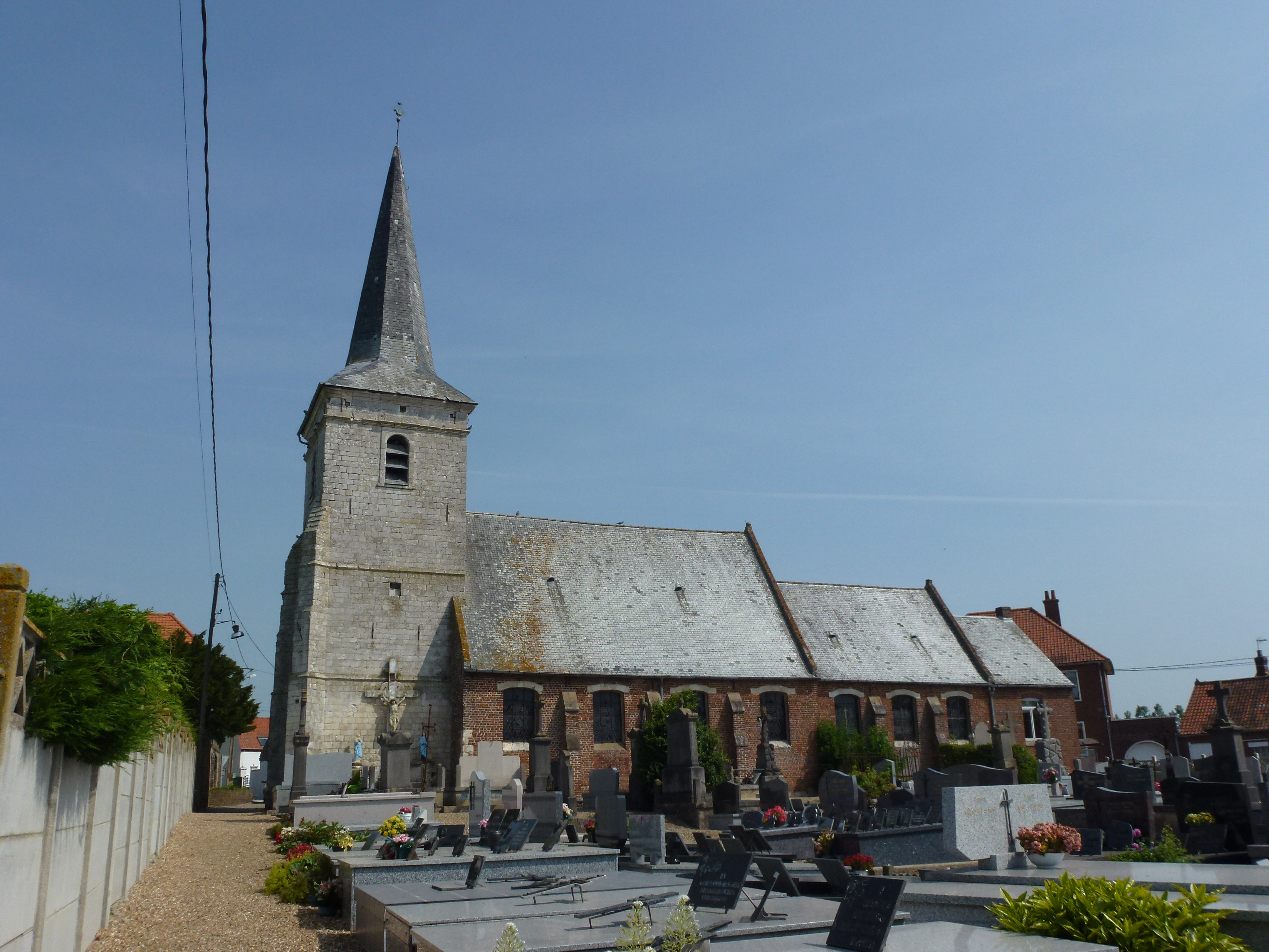 Aire-sur-la-Lys (Pas-de-Calais, Fr) église Saint-Omer de Rincq